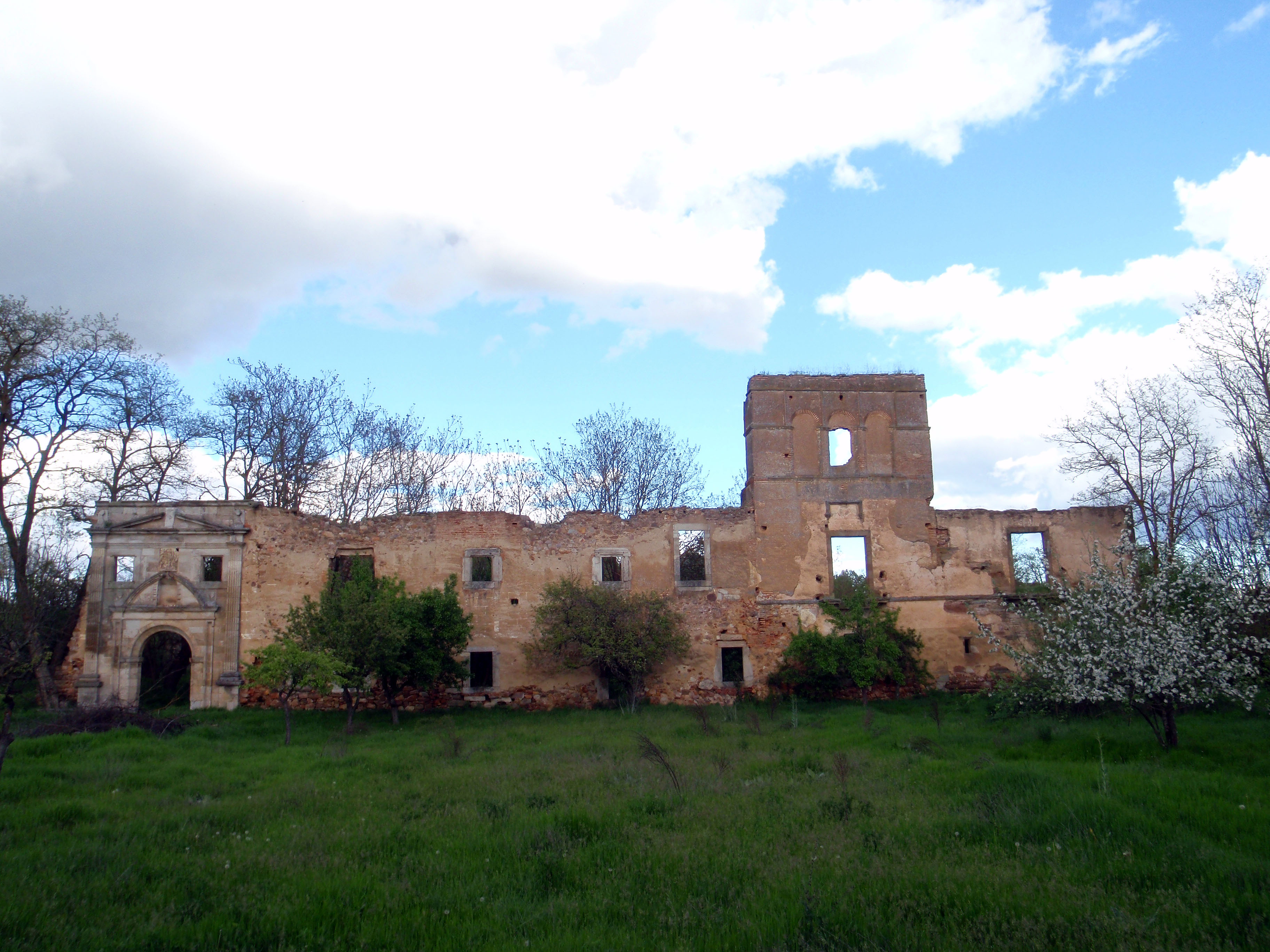 Ruins of the monastery of Santa María de Nogales, in the town of San Esteban de Nogales (Province of León, Spain)